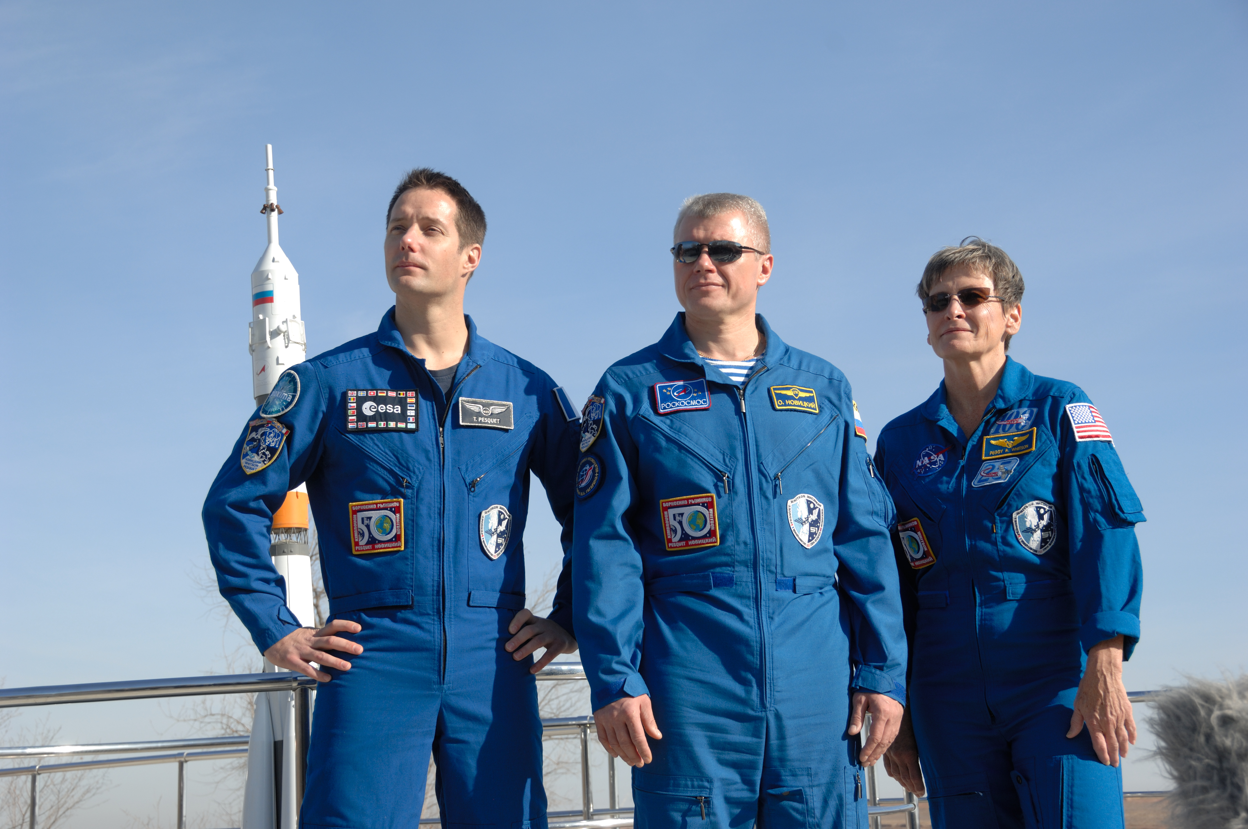 jsc2016e181840 (Nov. 10, 2016) --- At the Cosmonaut Hotel crew quarters in Baikonur, Kazakhstan, Expedition 50-51 crewmembers Thomas Pesquet of the European Space Agency (left), Oleg Novitskiy of the Russian Federal Space Agency (Roscosmos, center) and Peggy Whitson of NASA (right) pose for pictures Nov. 10 during preflight activities. They will launch Nov. 18, Baikonur time, on the Soyuz MS-03 spacecraft for a six-month mission on the International Space Station.